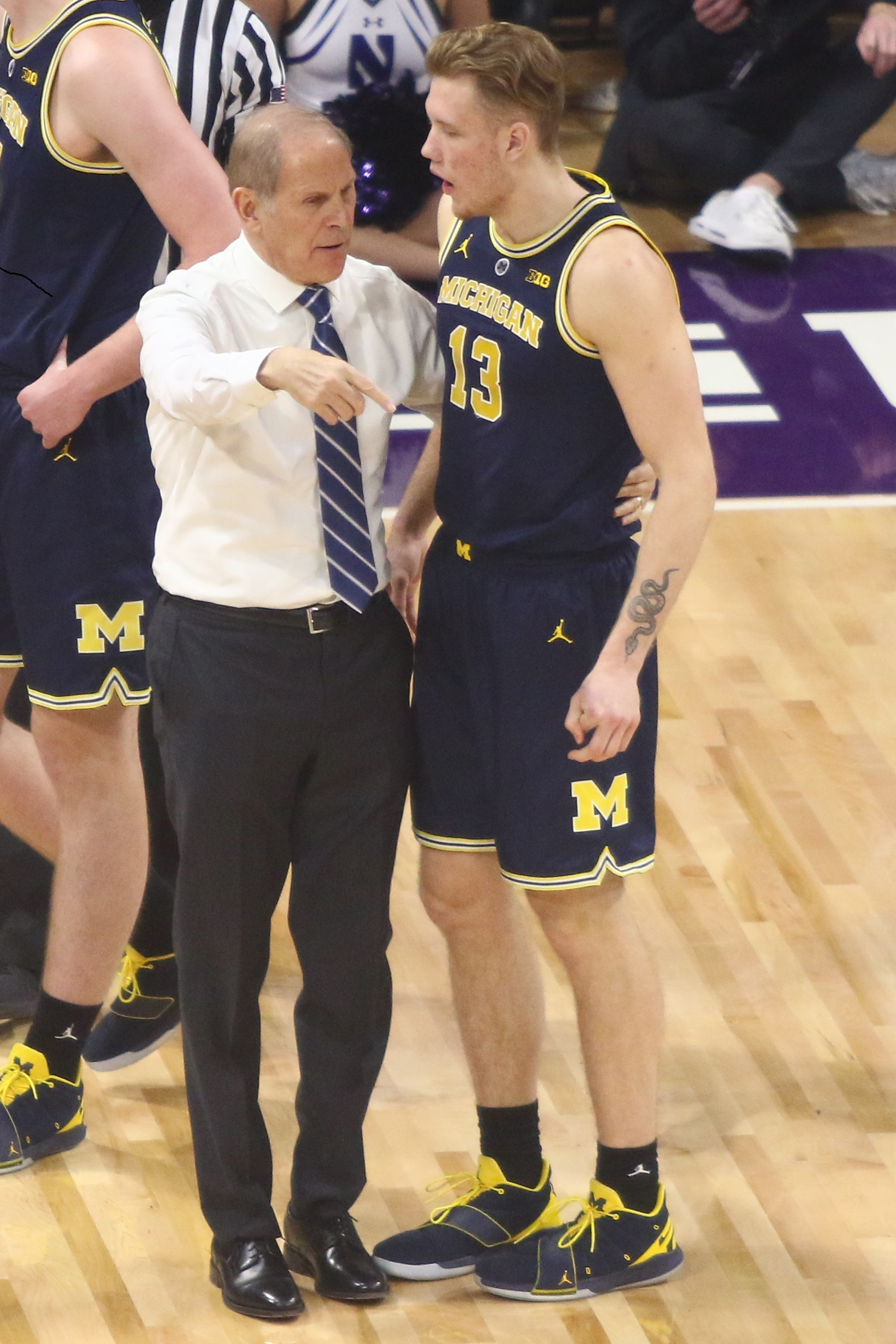 John Beilein talking with Iggy Brazdeikis for the w:2018–19 Michigan Wolverines men's basketball team at Welsh–Ryan Arena